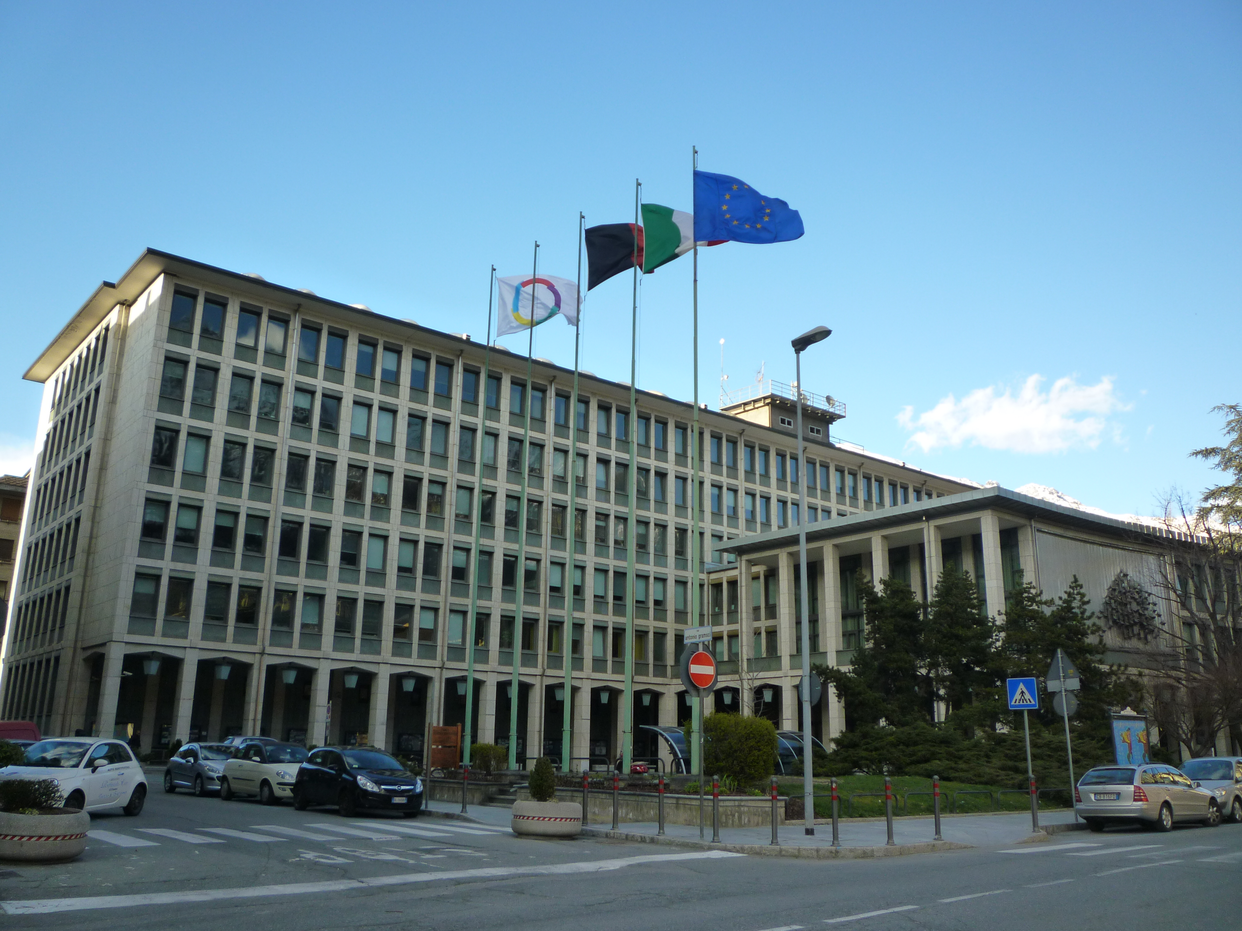 Regional council in Aosta (Aosta Valley, Italy)